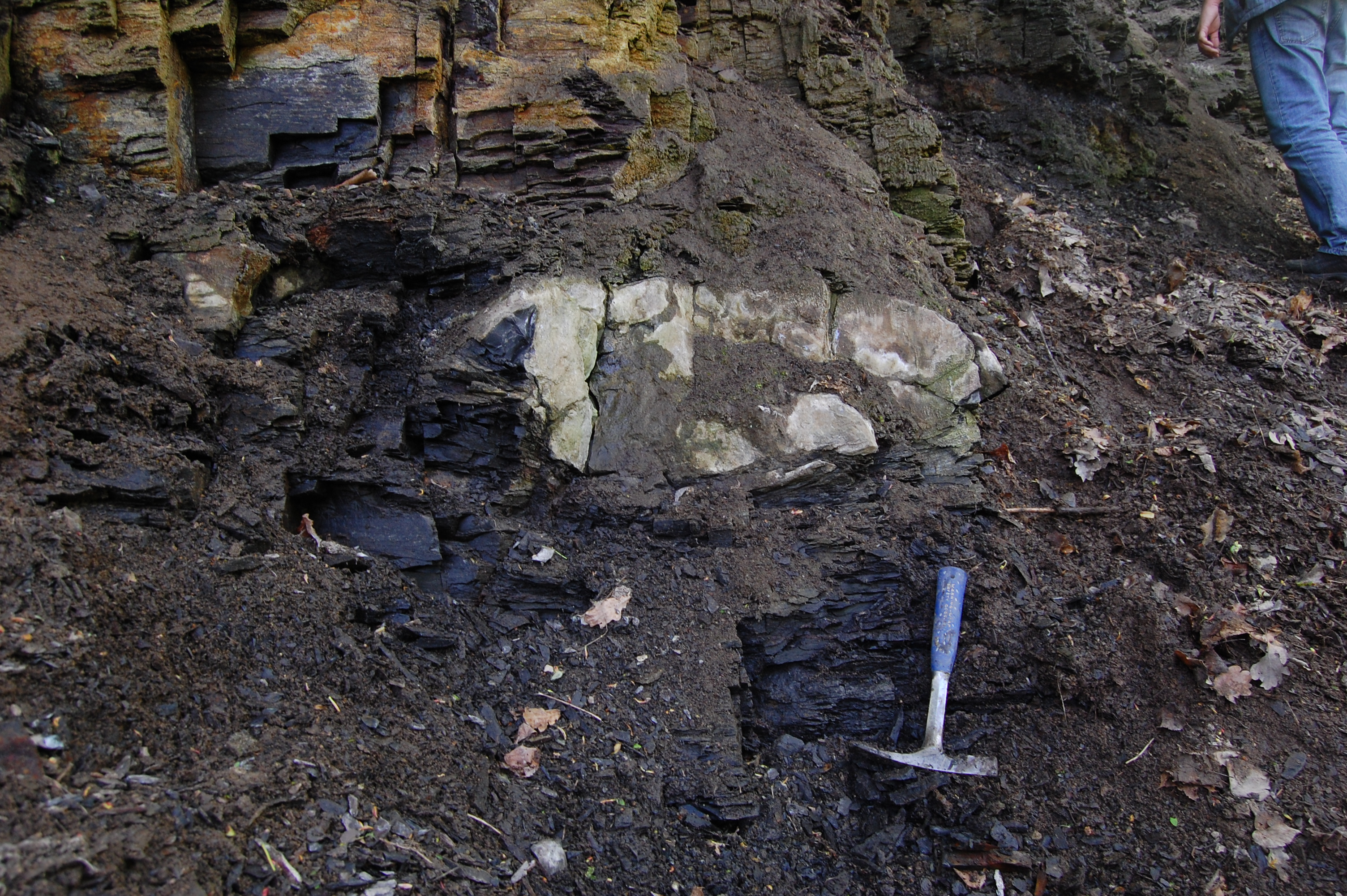 The GSSP of the Upper Ordovician Series and the Sandbian Stage. Hammer indicates the boundary, as identified by the FAD of Nemagraptus gracilis. Section E14b at Fågelsångsdalen nature reserve, some 2 km west of Södra Sandby, Lund Municipality, Skåne, Sweden.